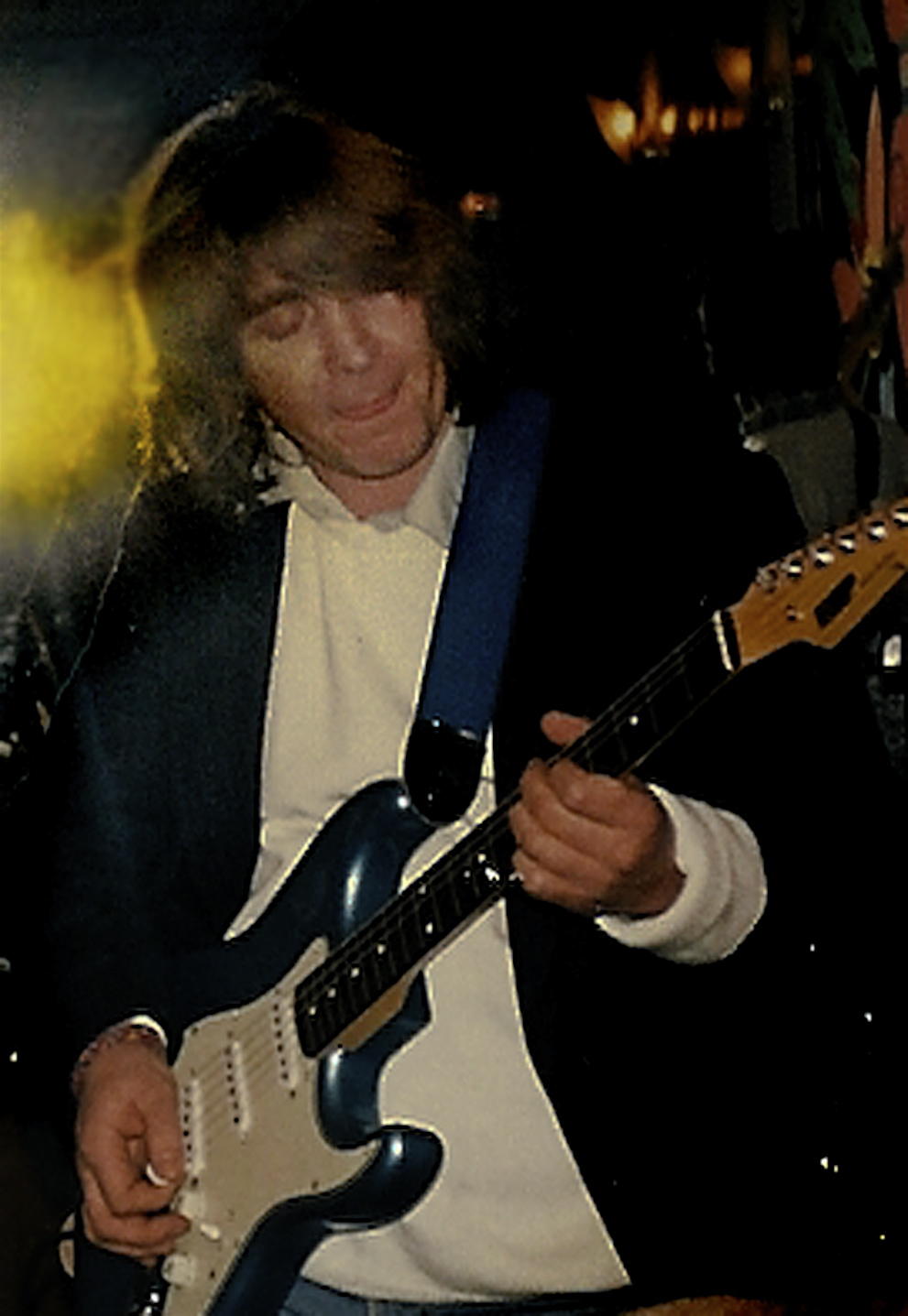 Mick Taylor w/ Ricky Byrd & Smokey Quartz @ Wonderland Blues NYC Mick Taylor : Photo Dina Regine